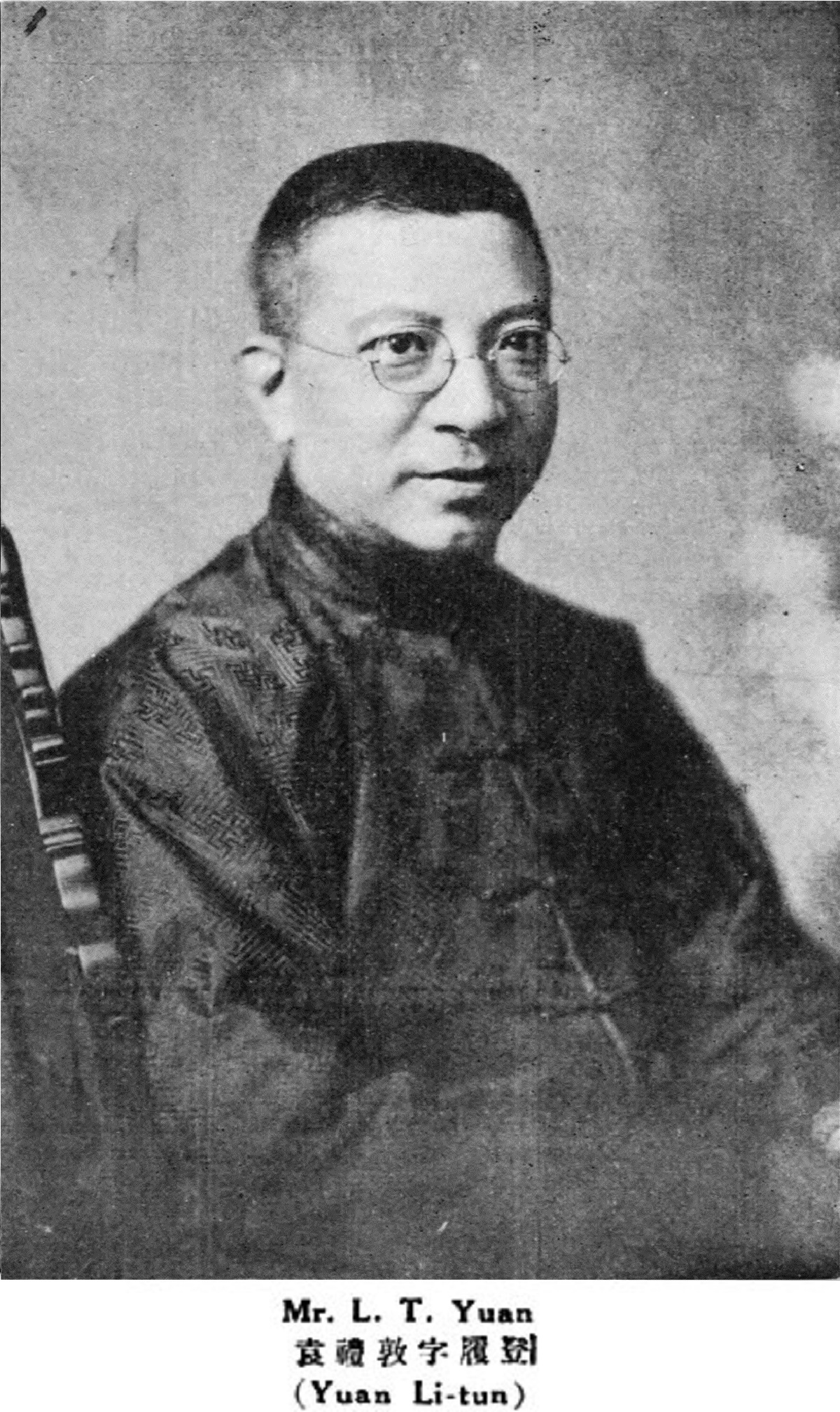 Yuan Lidun (Yüan Li-tun; L. T. Yuan), Lüdeng (1879 - 1954)